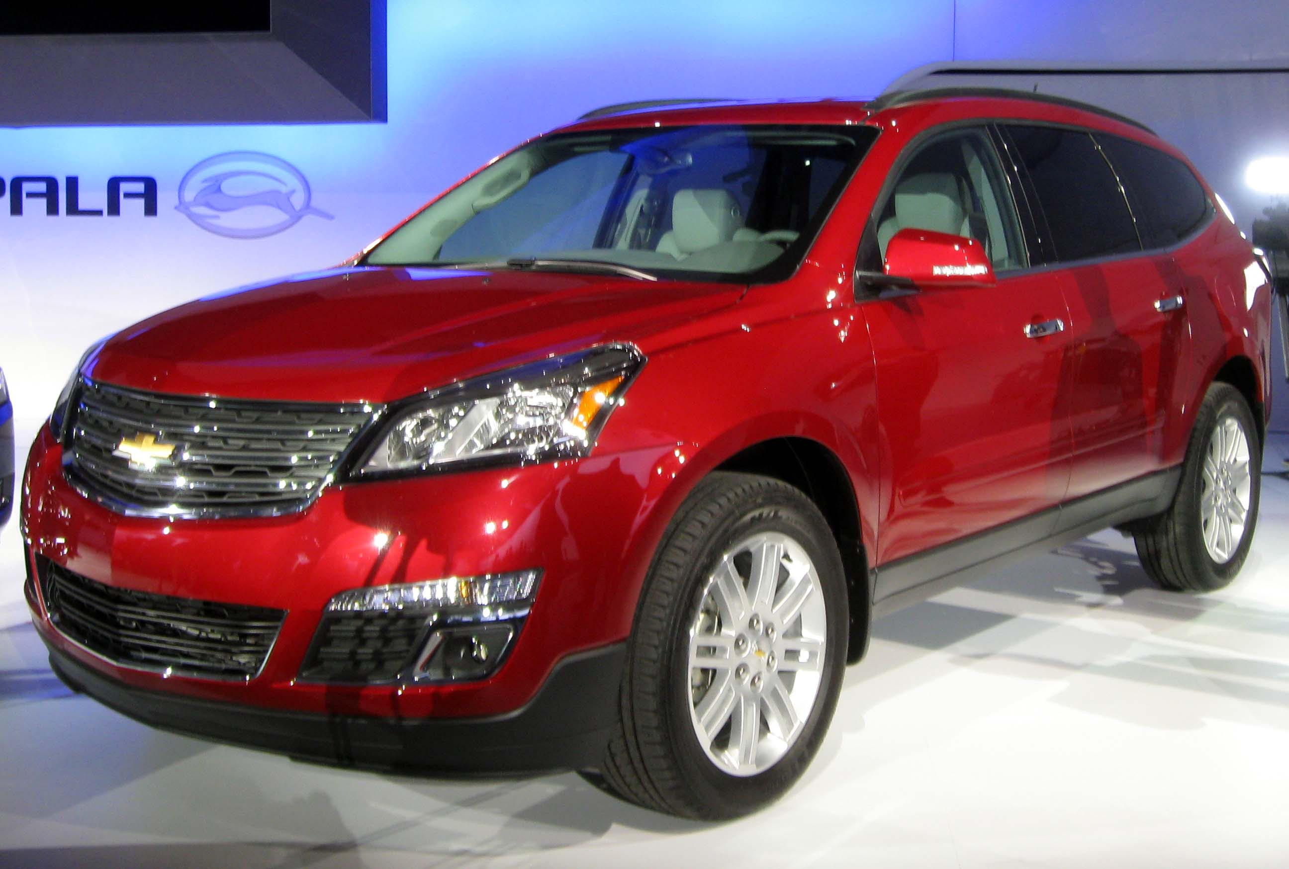 2013 Chevrolet Traverse photographed at the 2012 New York International Auto Show.